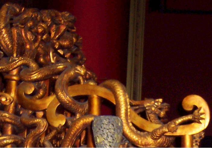 Detail of Dragon Throne, Qing dynasty, from Splendors of China's Forbidden City: The Glorious Reign of Emperor Qianlong exhibition on loan from Beijing. Picture taken at Field Museum of Natural History I agree to multi-license all my images which were taken at the Field Museum